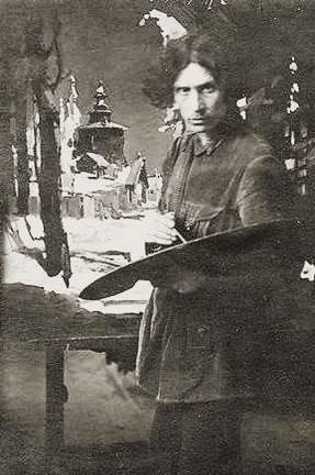 Russian artist Mikhail Guzhavin (1881-1931) alternate version